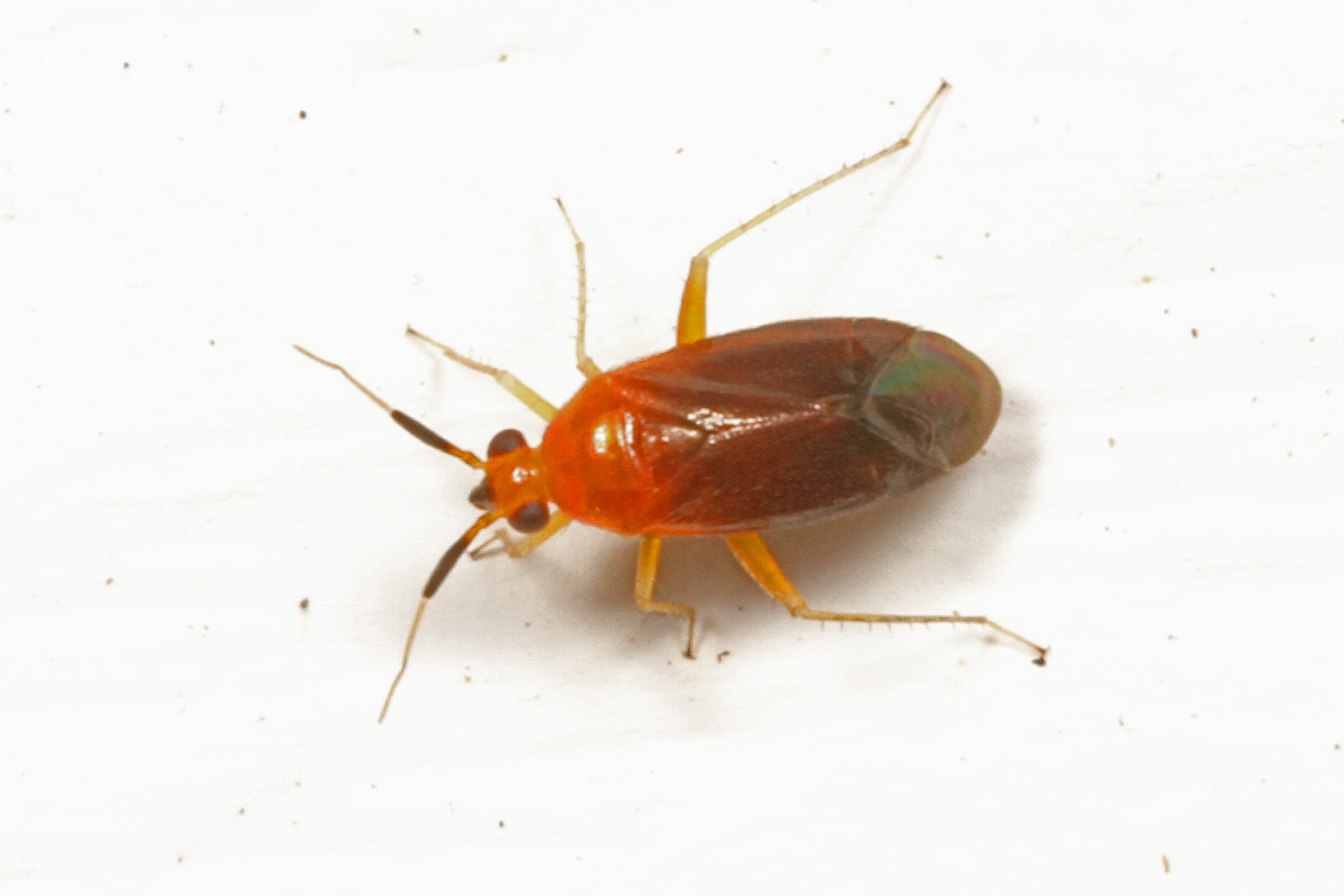 Azalea Plant Bug - Rhinocapsus vanduzeei, Woodbridge, Virginia. This is a very small bug